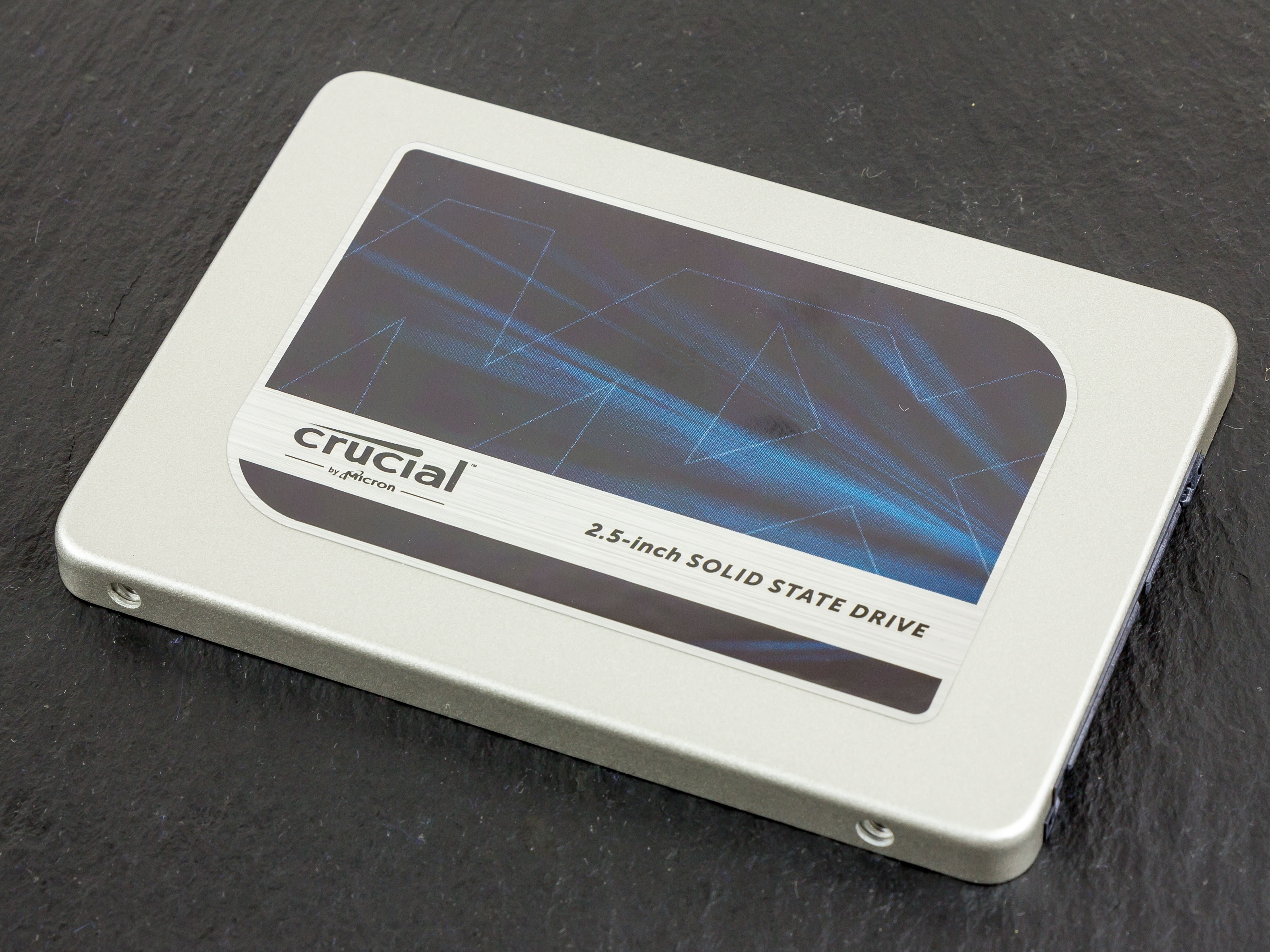 Crucial SSD MX300 525GB, 2.5""